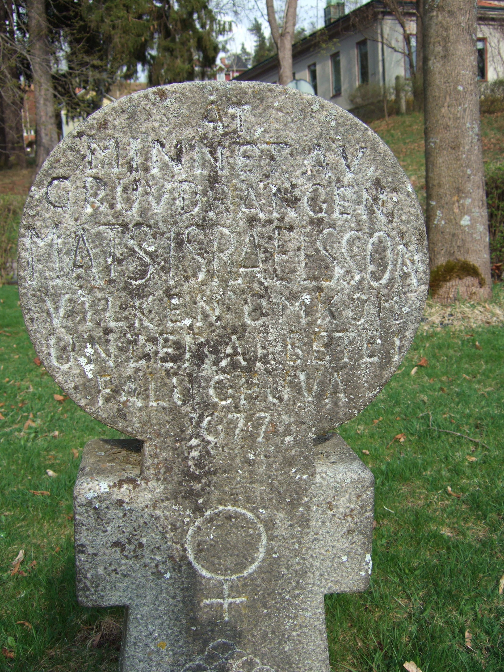 The mine worker Fet-Mats Israelsson gravestone in Falun.